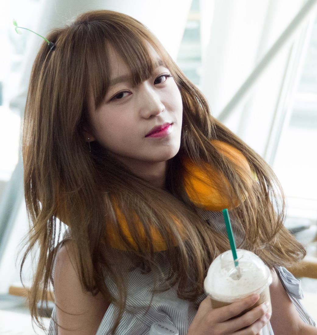 160922 아이비아이 김소희 @ 인천공항 출국&헬로 아이비아이 촬영